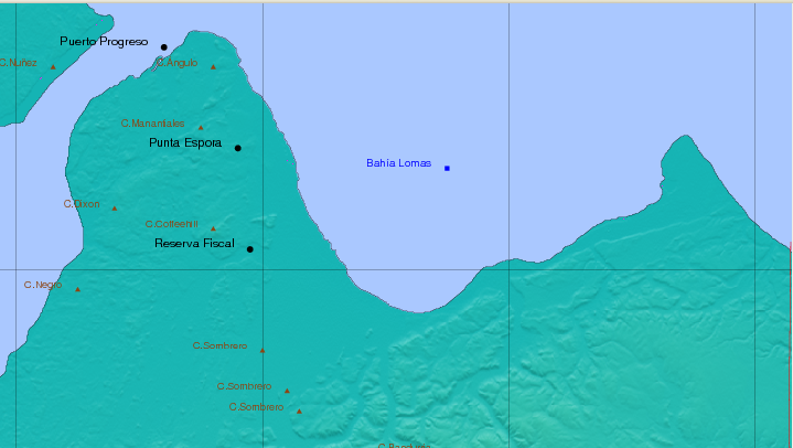 Ramsar Site Bahia Lomas Tierra del Fuego, Chile